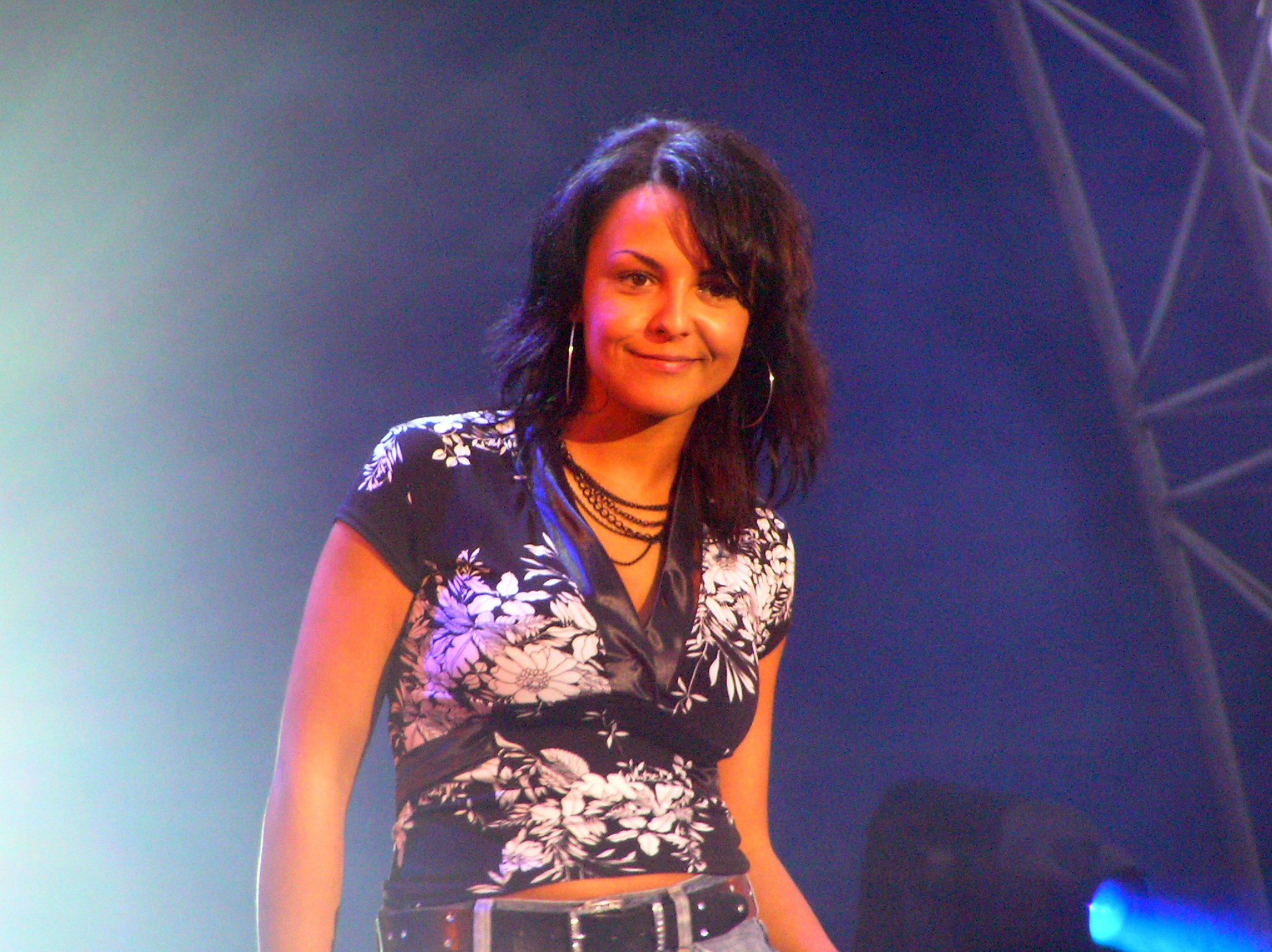 Linda Mertens (Milk Inc. Singer) during Milk Inc. performance at Radio Donna’s Summercity during 50th anniversary of Tall Ships' Races 2006, Antwerp, Belgium.